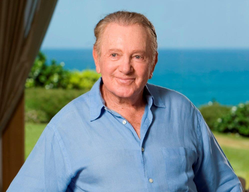 Mr. Morris Kahn, a South African-born Israeli billionaire entrepreneur. He is the founder of Golden Pages Israel, Amdocs, the Aurec Group, Coral World and other companies.